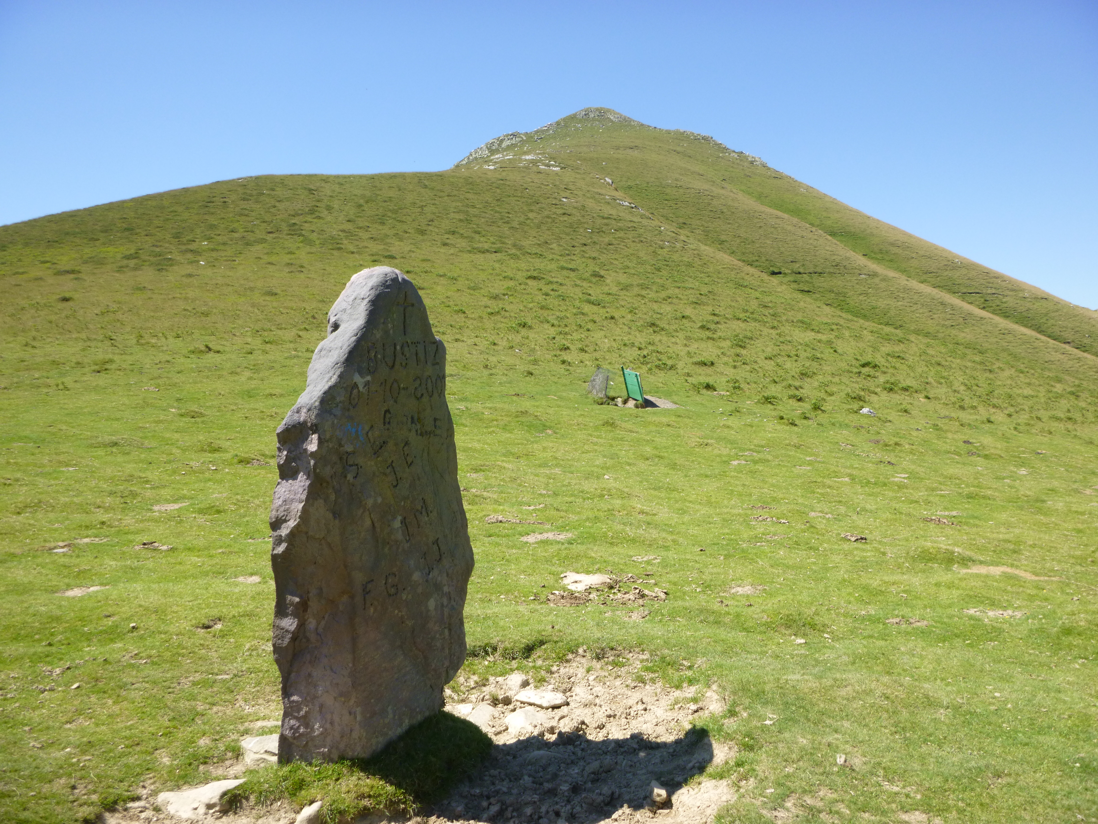 Bustitza menhir